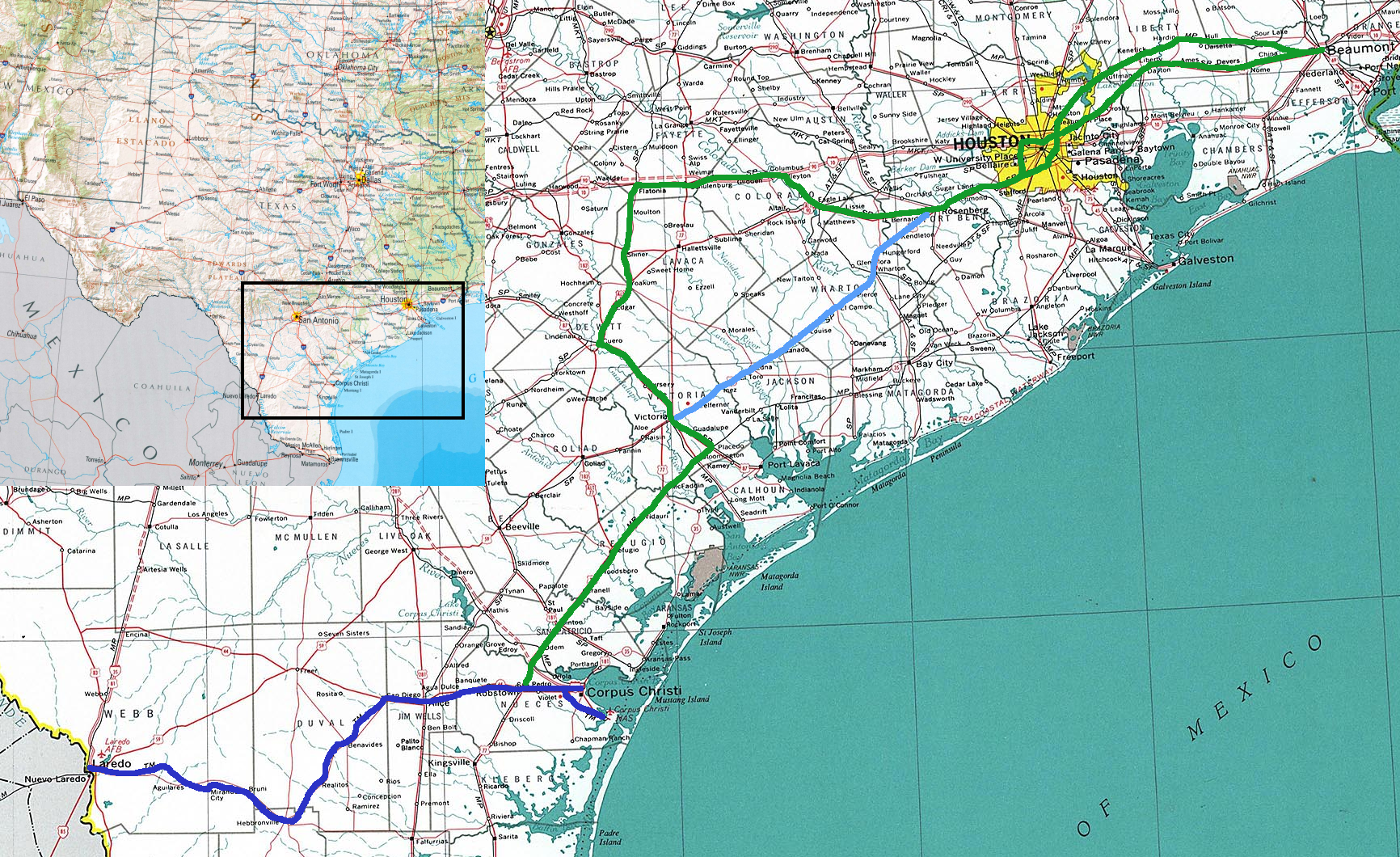 Map of The Texas Mexican Railroad Dark blue - own route, green - trackage rights, light blue - rebuilt Macaroni Line (2009). Map based of National Atlas 1970/2002 Author:Liesel